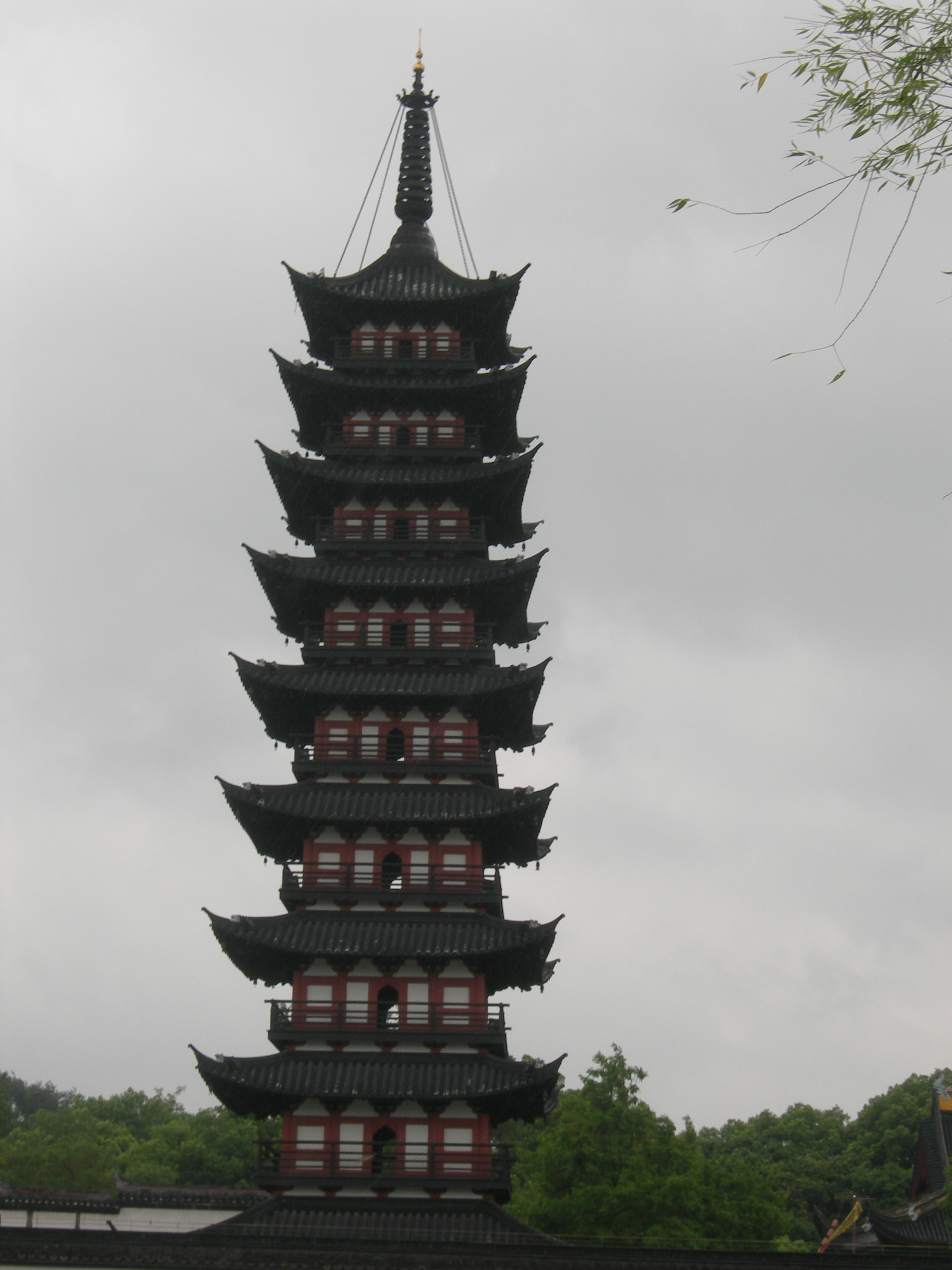 Fangta (Square Tower) Park in Songjiang District, Shanghai, China